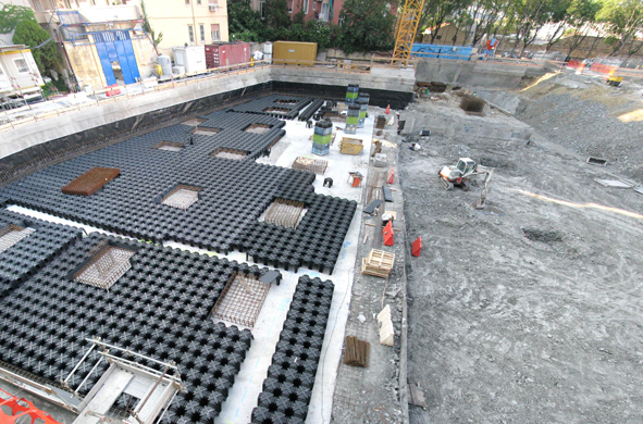 Iglu'® Disposable formwork for aerated concrete floor